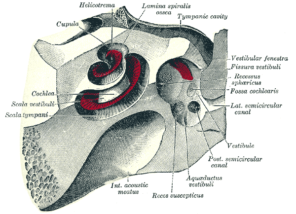 The cochlea and vestibule, viewed from above. All the hard parts which form the roof of the internal ear have been removed with the saw.